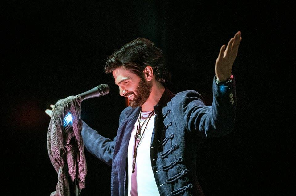 Mike Massy in concert, Washington DC